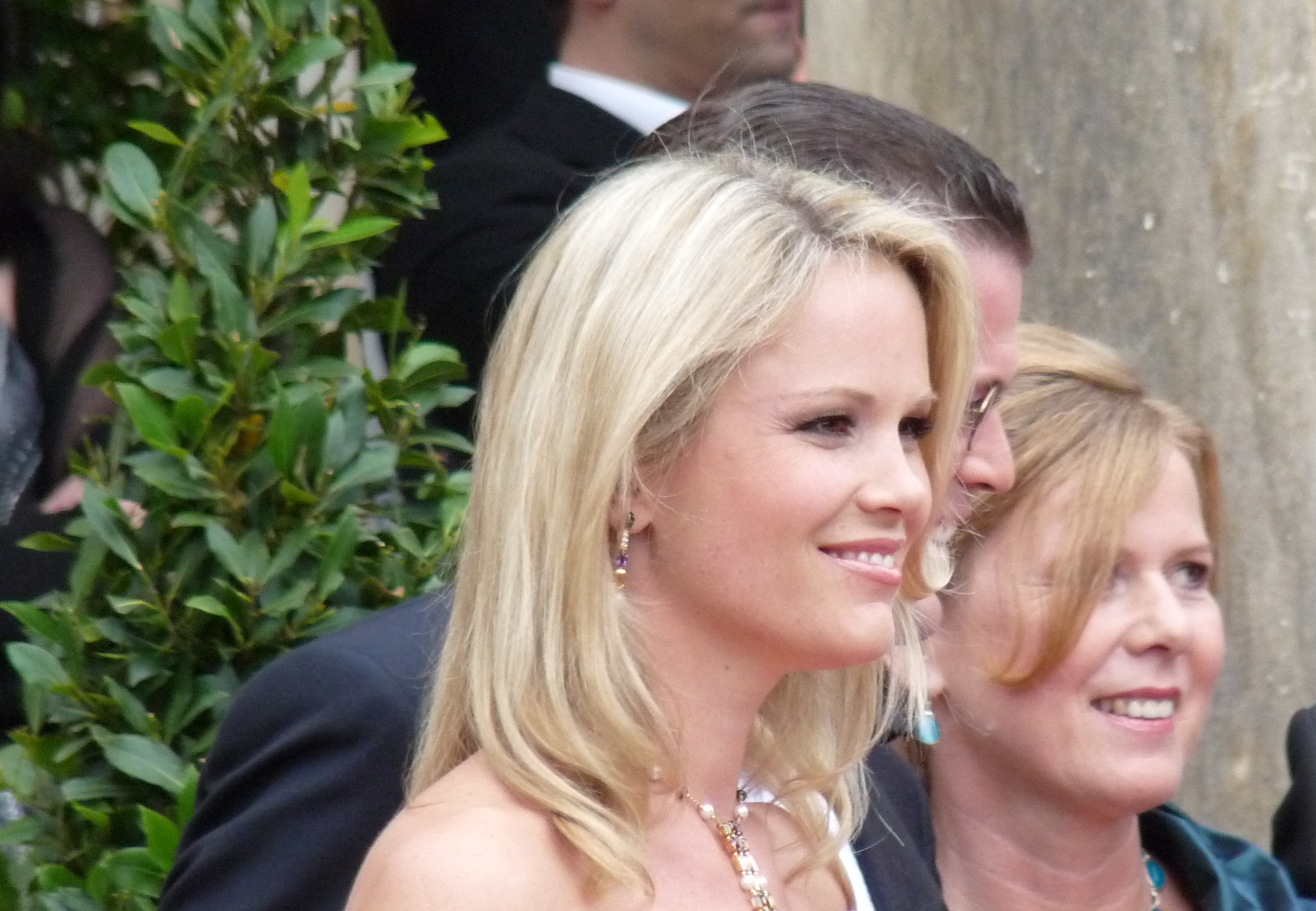 Stephanie Gräfin von Bismarck-Schönhausen, wife of German politician and Federal Minister of Defense Karl-Theodor zu Guttenberg. She is a great-great-granddaughter of Otto von Bismarck, Chancellor of the North German Confederation and first Chancellor of the German Empire.